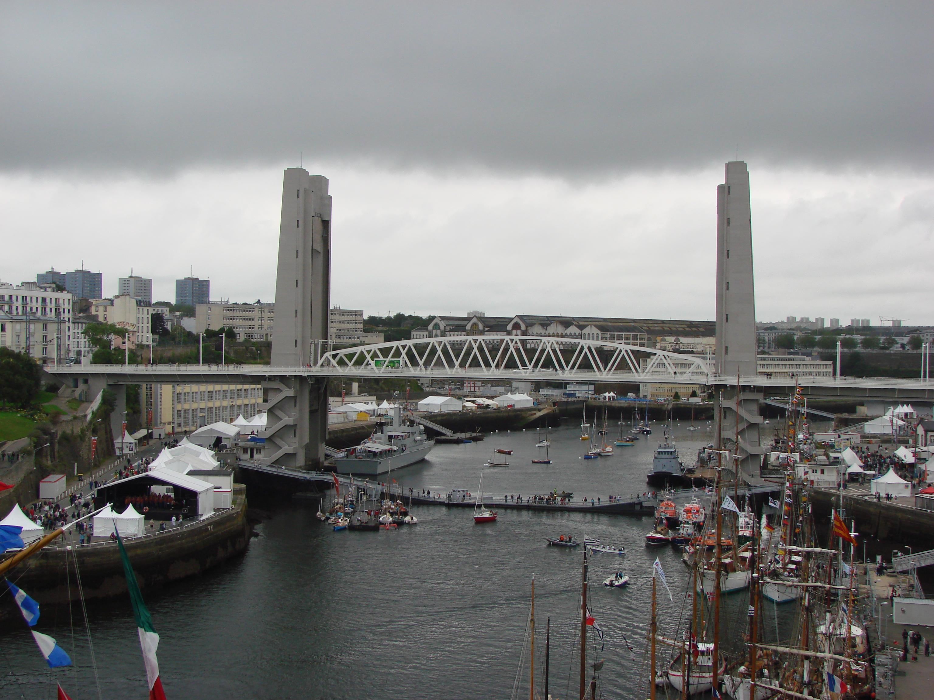 A view of Brest's harbour during Tonnerres de Brest 2012.